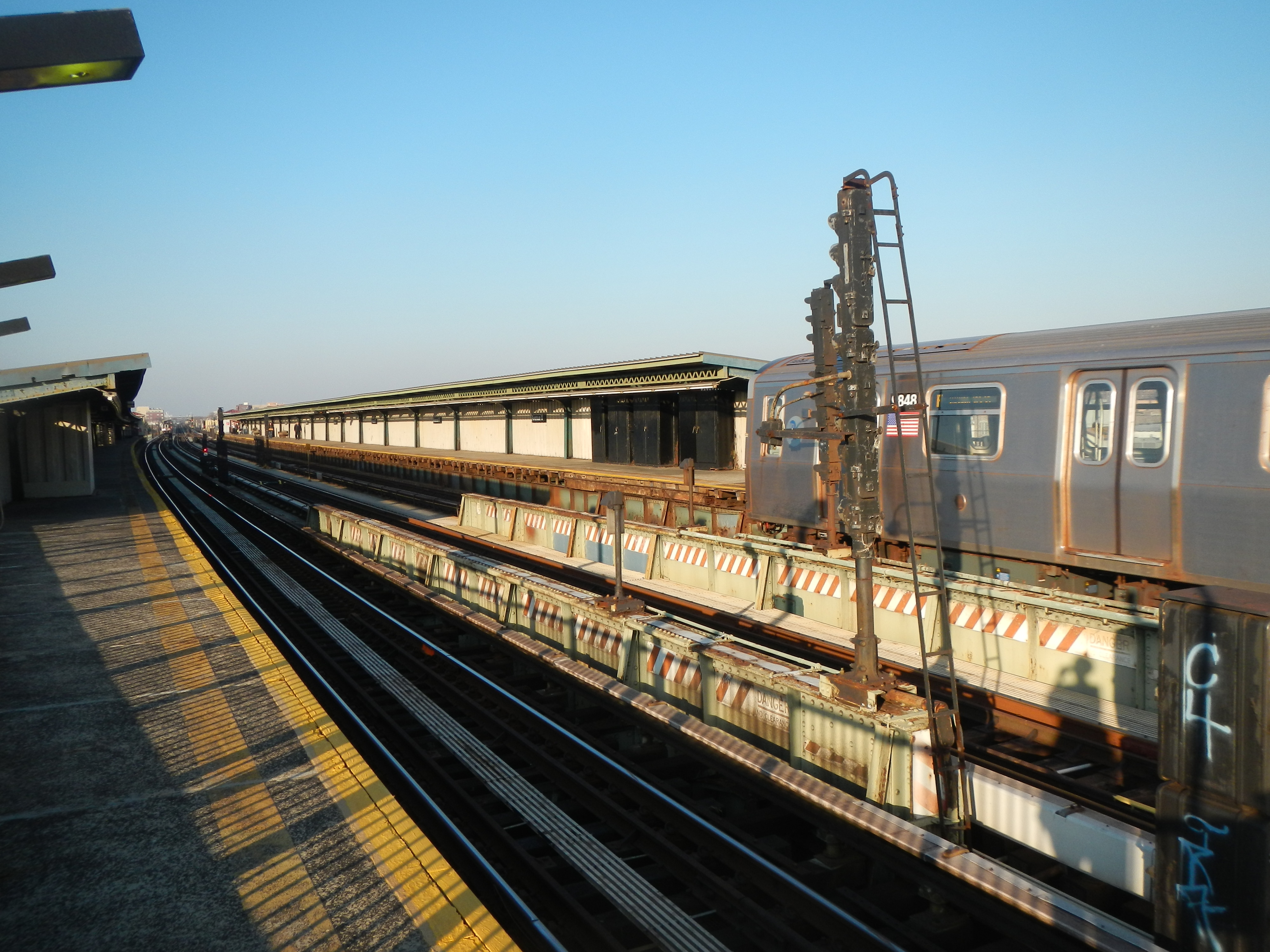 Looking northeast at arriving northbound F train on a sunny afternoon.